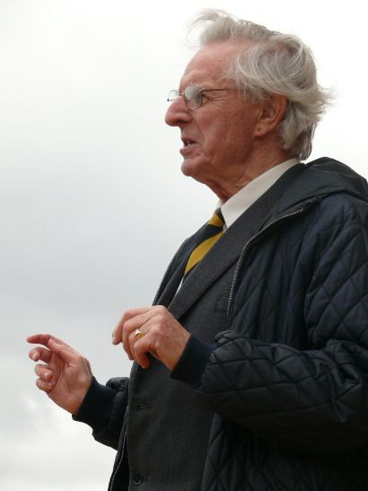 Sir Arnold Wolfendale opening Kielder Observatory.